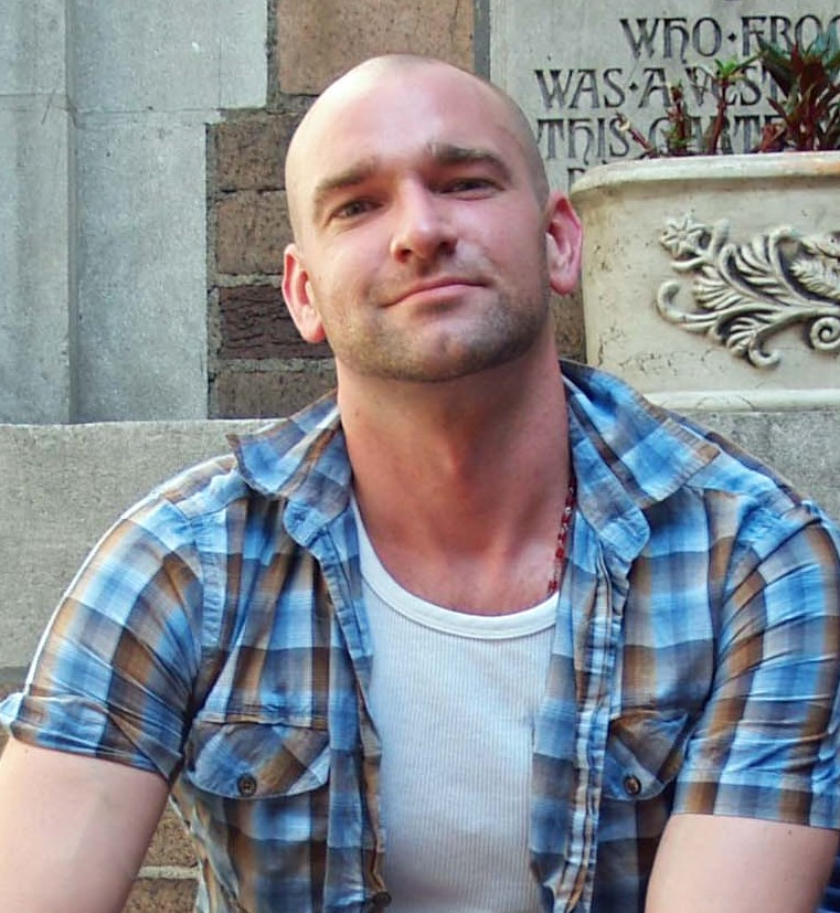 David Shankbone by David Shankbone, New York City.